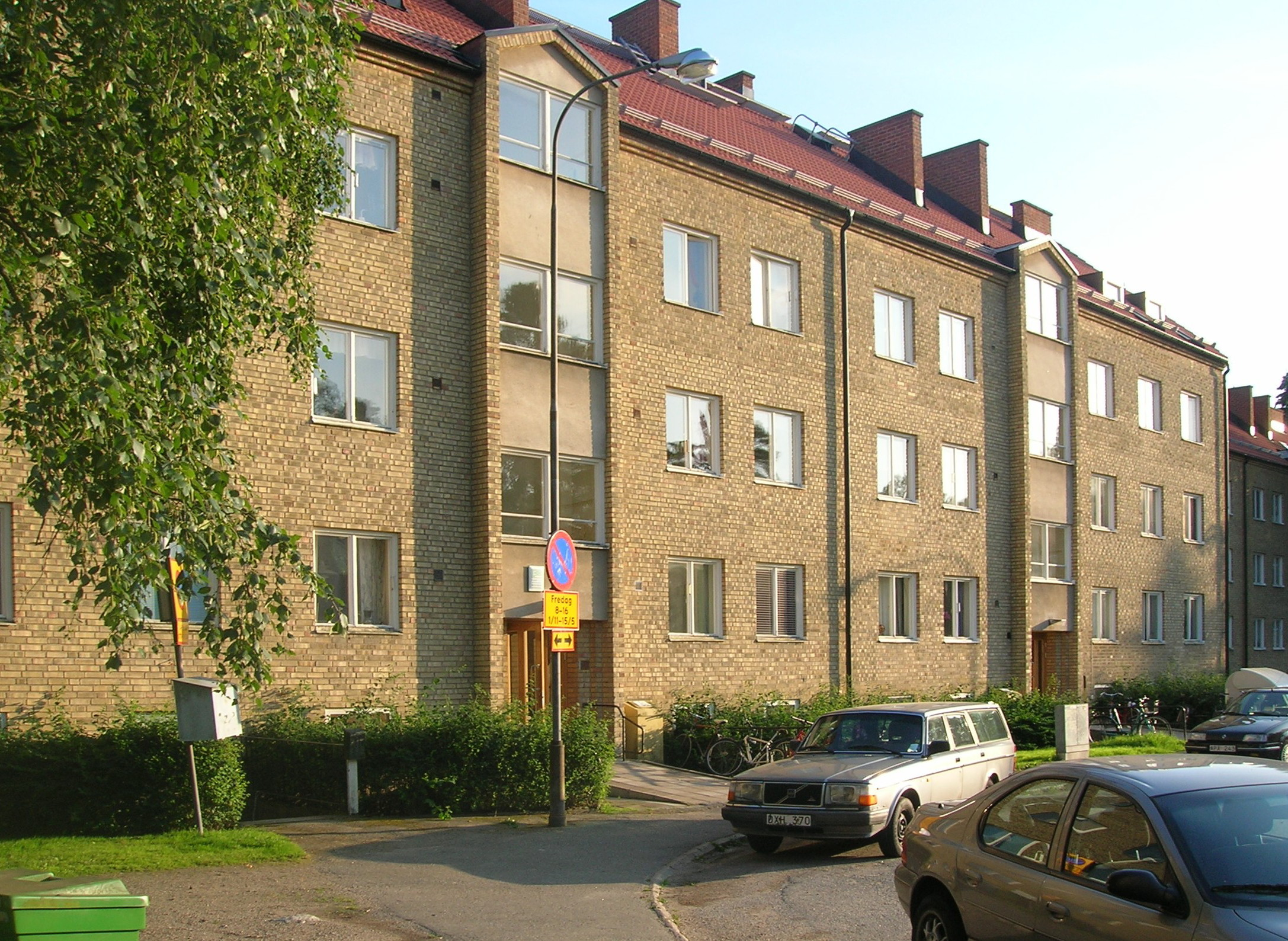 The Malmö building at Selebovägen 21-27 in Svedmyra, Stockholm. Architekt Gunnar Lindman, Built 1950-1954